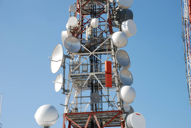 A communications tower in Australia, supporting a variety of parabolic antennas used for point-to-point microwave communication links. Some of the parabolic dishes are covered by convex white plastic radomes to protect against rain.